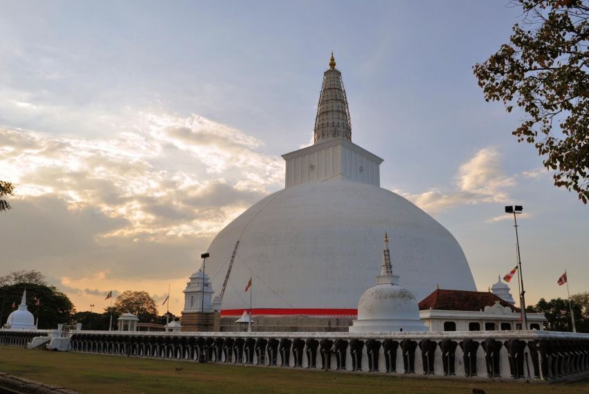 Ruwanwelisaya dagoba in Anuradhapura city